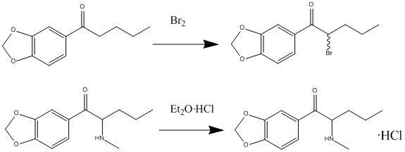 A brief description of the synthesis of butylone